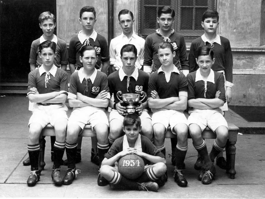 An Argentine young football team of St. Andrew's Scots School, champion in 1934.